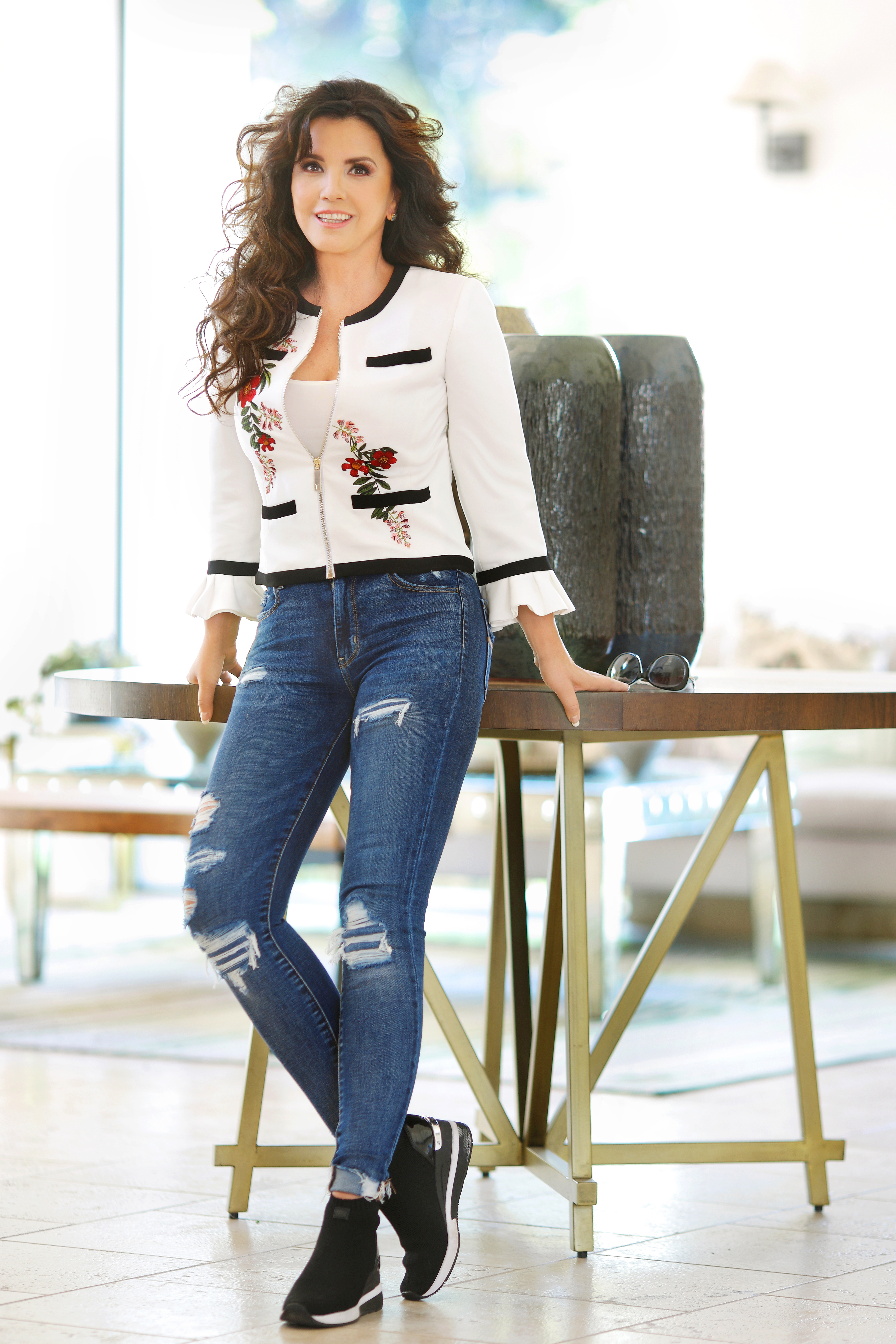 Adriana Gaitán, businesswoman and writer, specialist in Human Factor